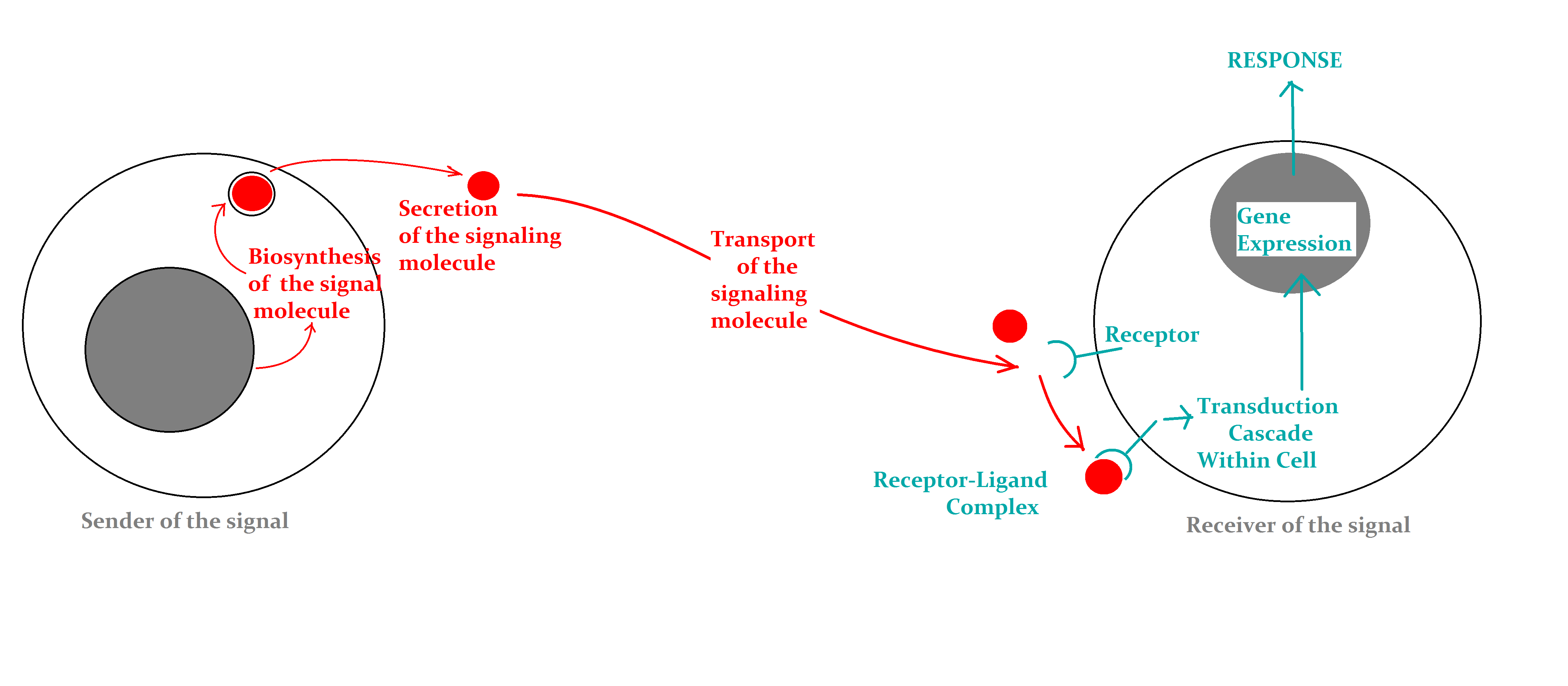 Outline of Cell cell communication